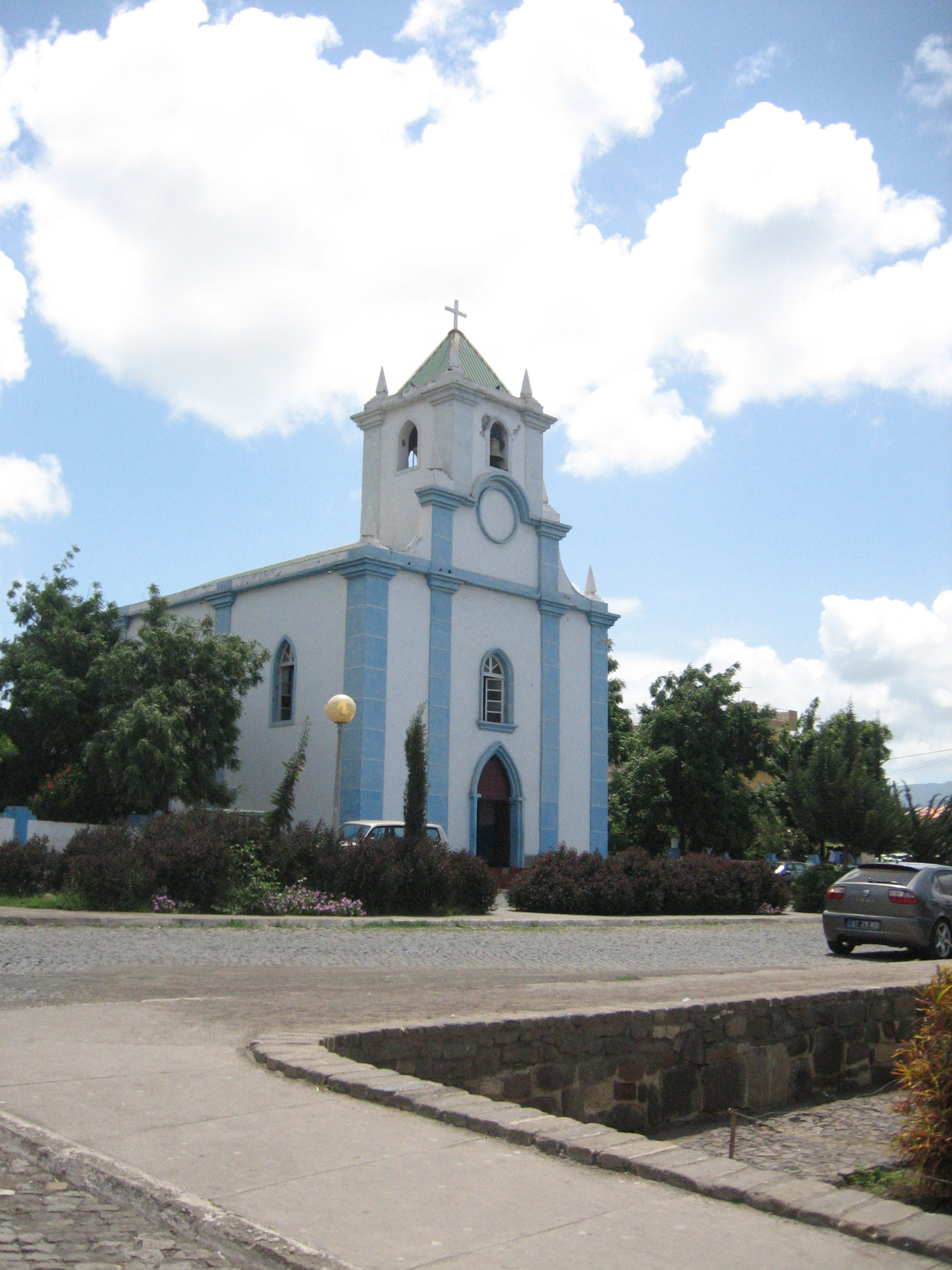 The church of Tarrafal on the island of Santiago, Cape Verde.